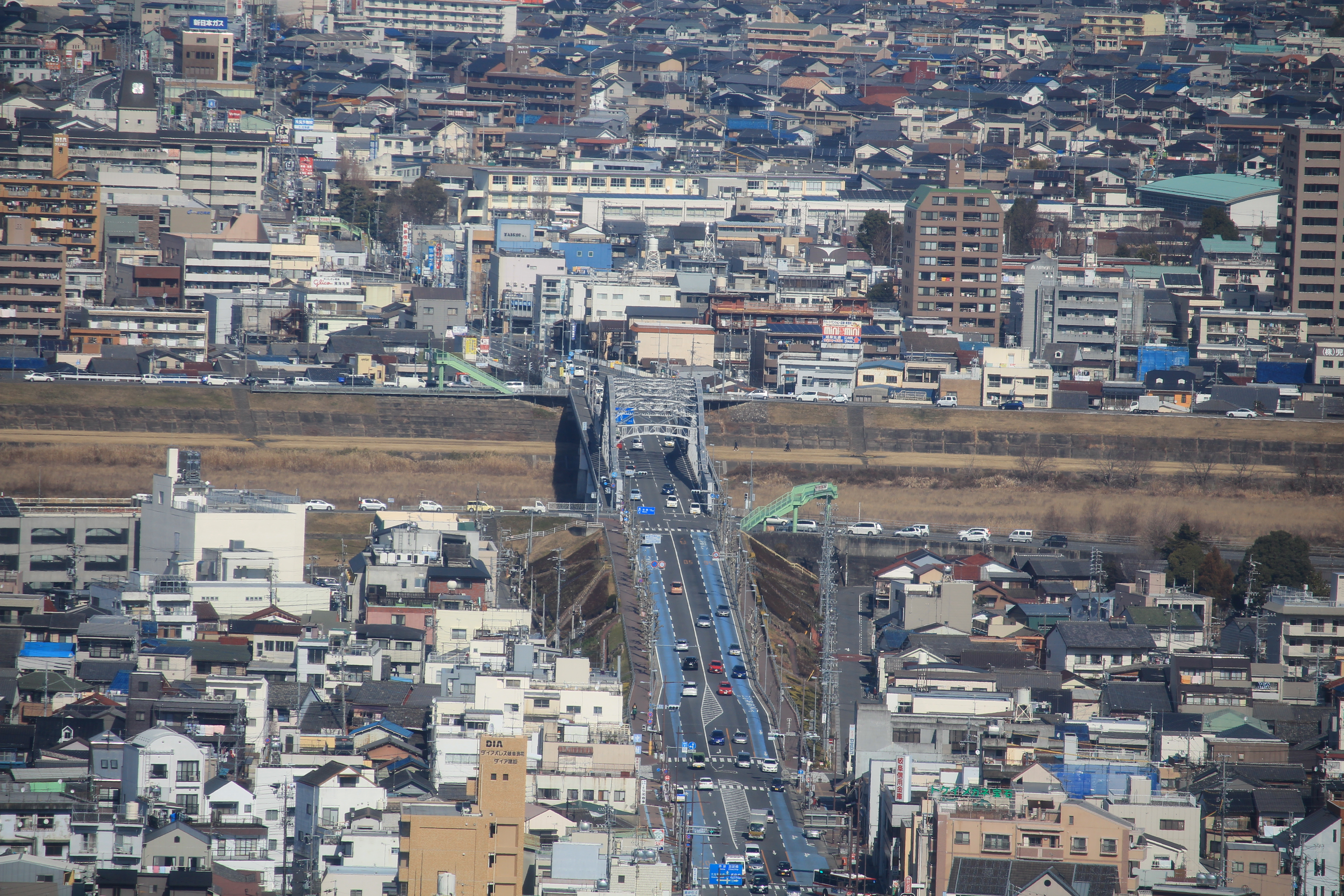 Chusetsu Bridge of Route 157 (and Route 303) over Nagara River, seen from Gifu City Tower 43 in Gifu city, Gifu prefecture, Japan.